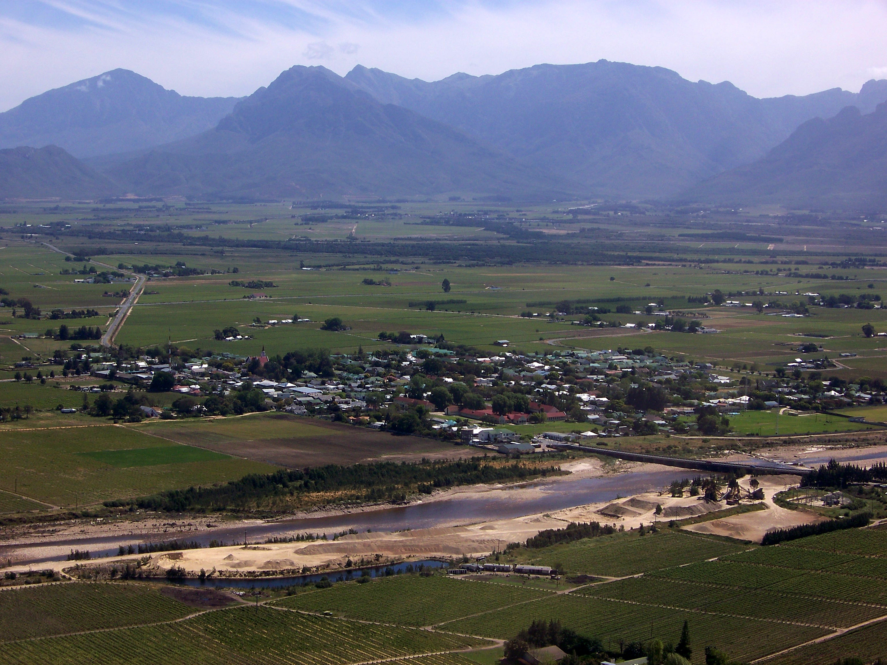 Aerial view of the Breede River Valley and its intensive viticulture and high mountains (Rawsonville: village in foreground)